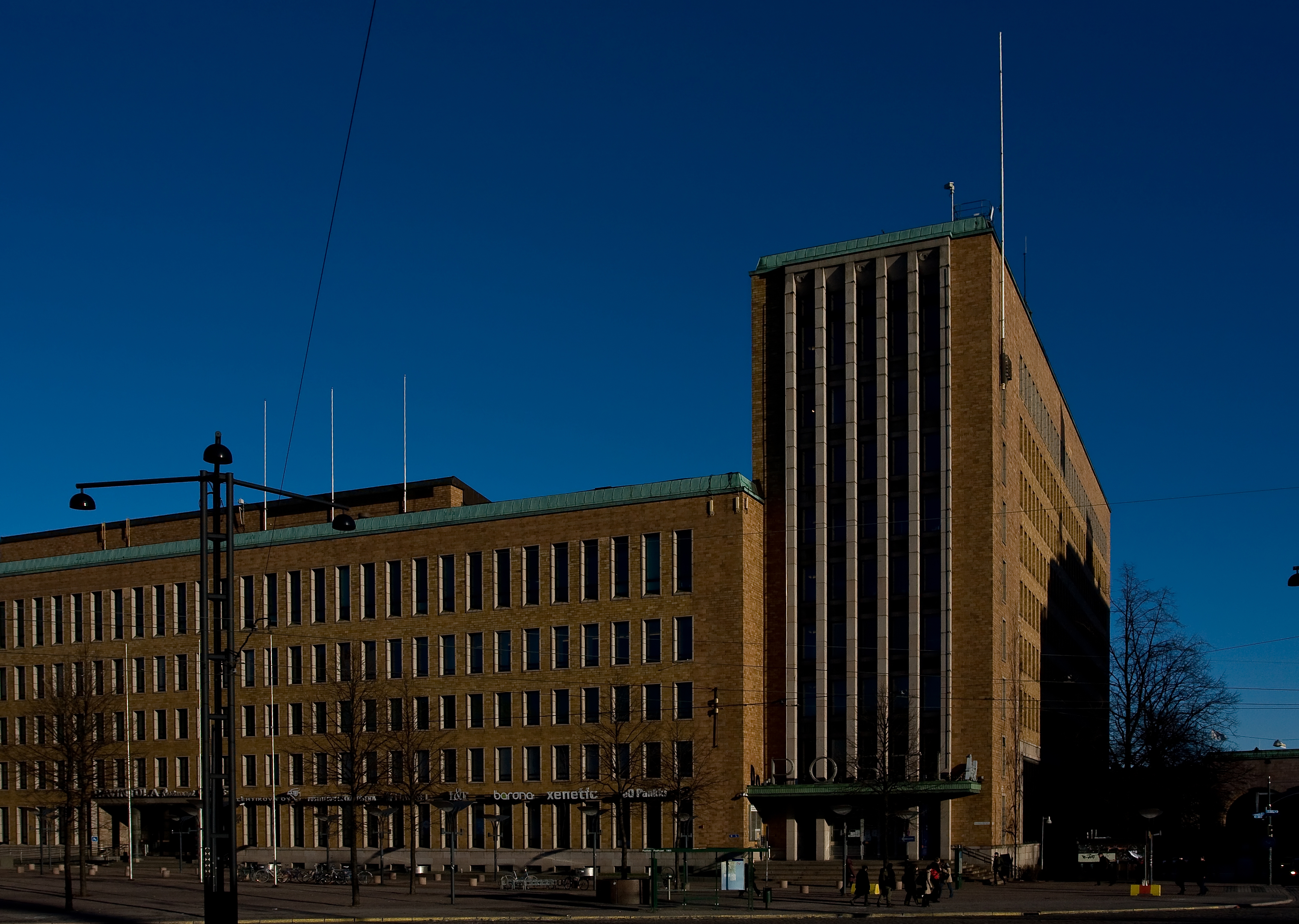 Central Post Office in Helsinki, Finland